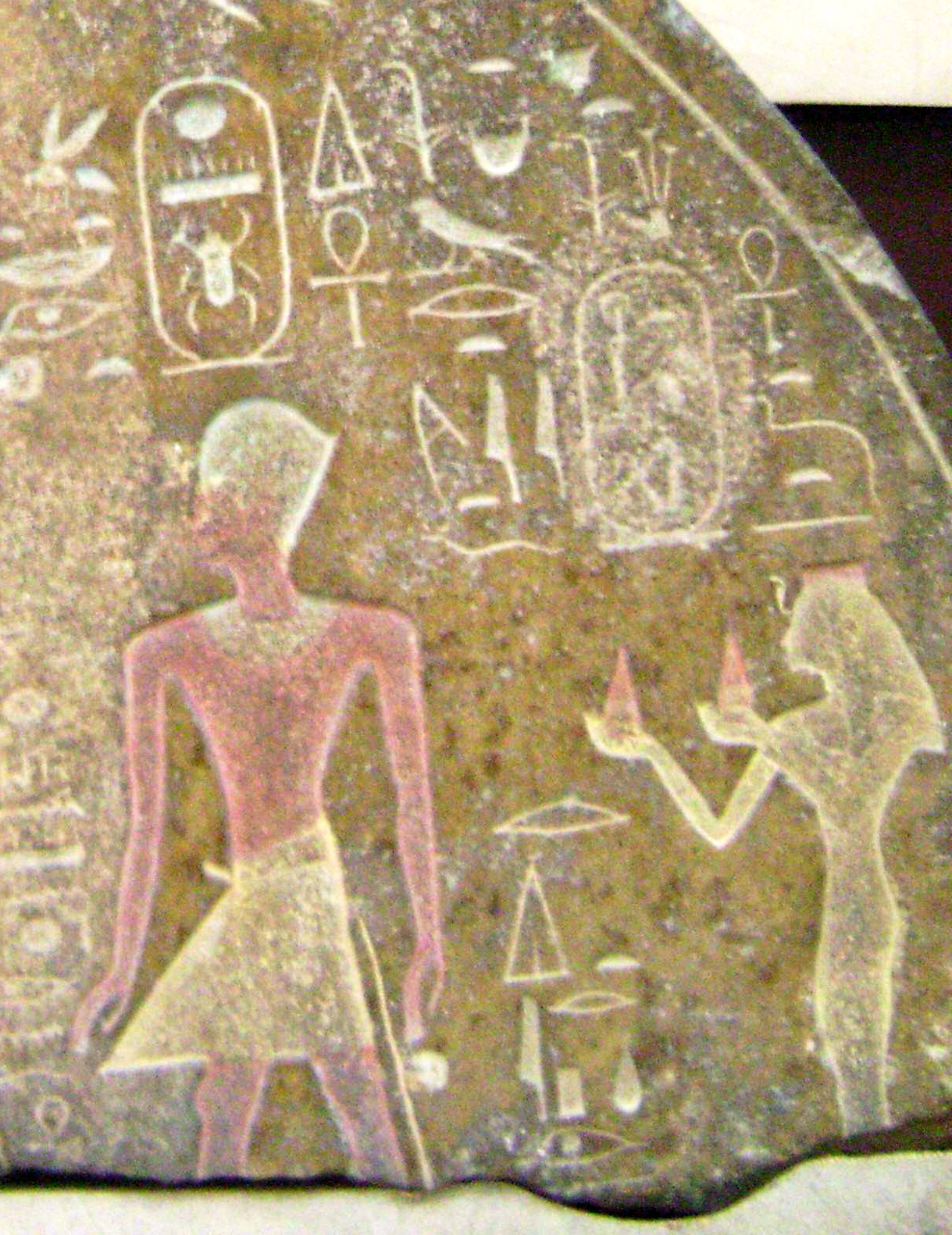 Tuthmosis III with his mother Isis behind him.